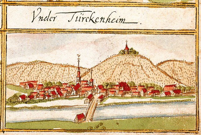 View of Untertürkheim from the forest register books created by Andreas Kieser